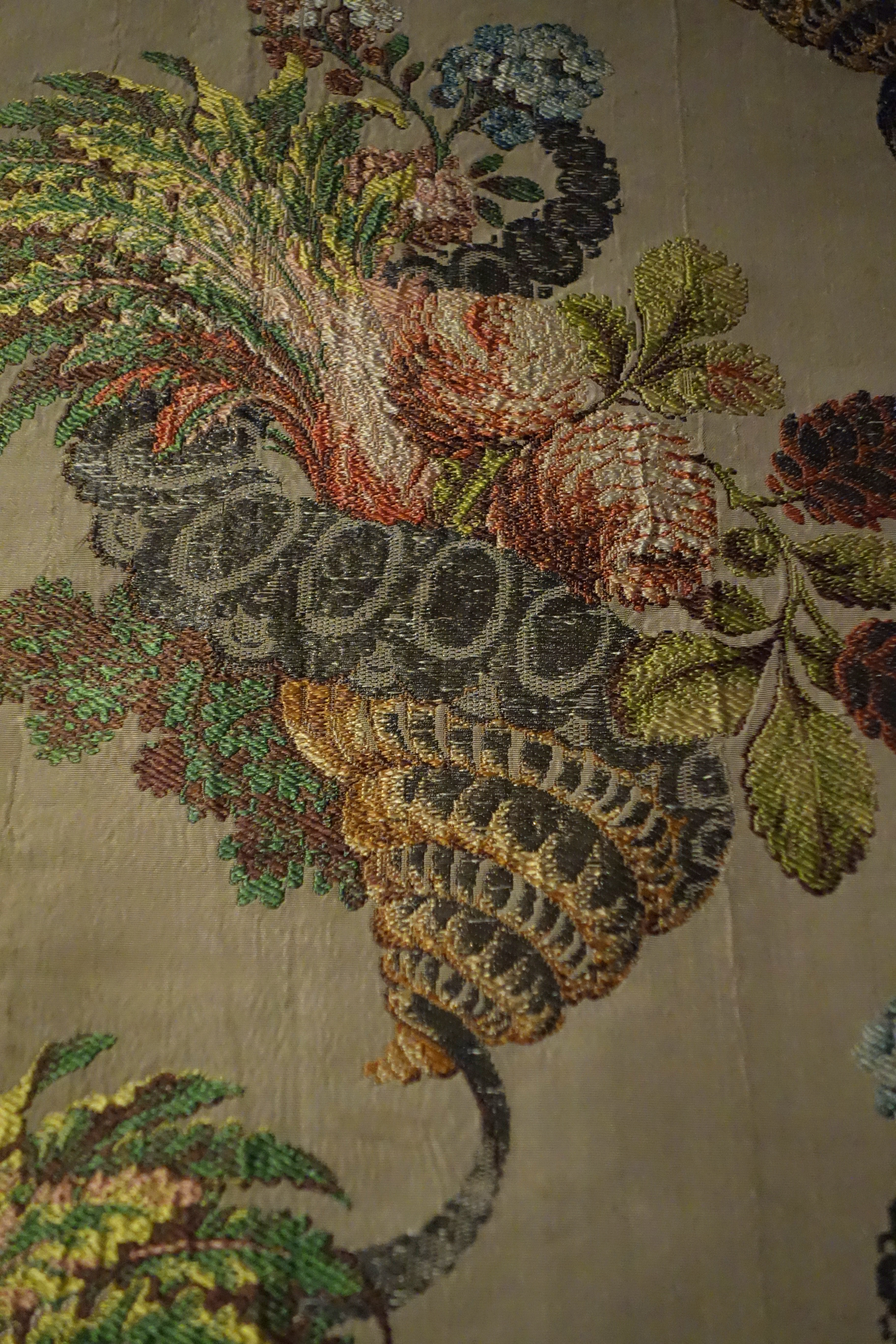 Exhibit in the Royal Ontario Museum, Toronto, Ontario, Canada. This work is old enough so that it is in the public domain.